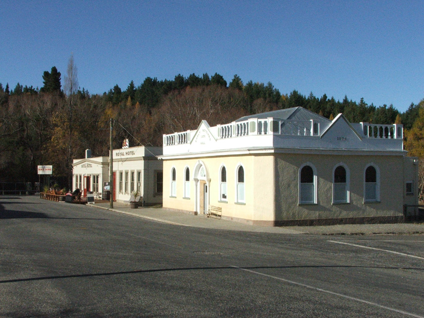 Naseby, New Zealand